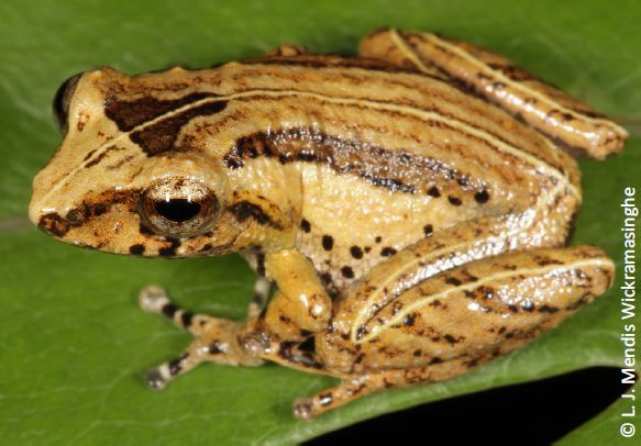 Pseudophilautus hypomelas" from the Peak Wilderness, Central Hills of Sri Lanka. Source: Wickramasinghe, L. J. M., D. R. Vidanapathirana, M. D. G. Rajeev, and N. Wickramasinghe. 2013. Rediscovery of Pseudophilautus hypomelas (Günther, 1876) (Amphibia: Anura: Rhacophoridae) from the Peak Wilderness, Sri Lanka, a species thought to be extinct! Journal of Threatened Taxa 5:5181–5193.